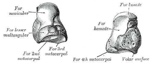 The left capitate bone.